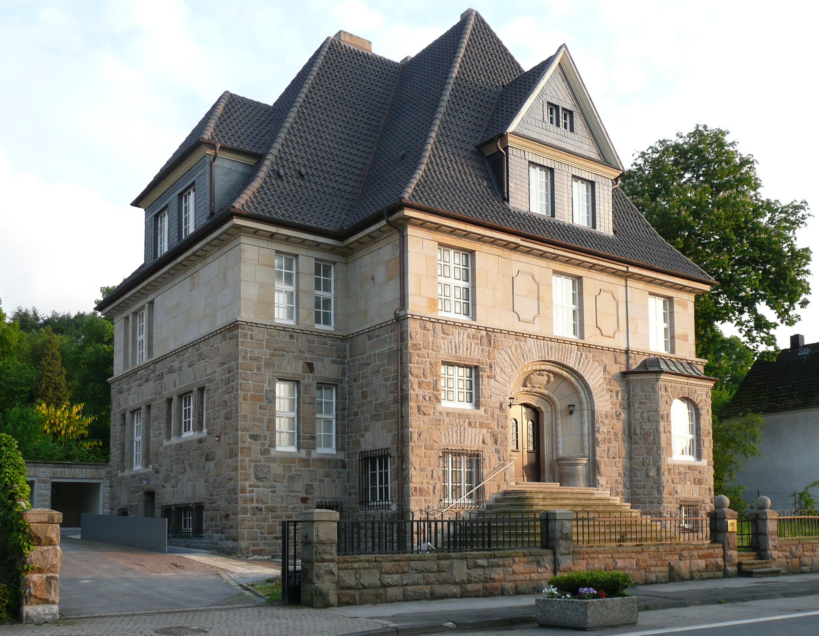 Ardex executive's office, former residential house of the founder